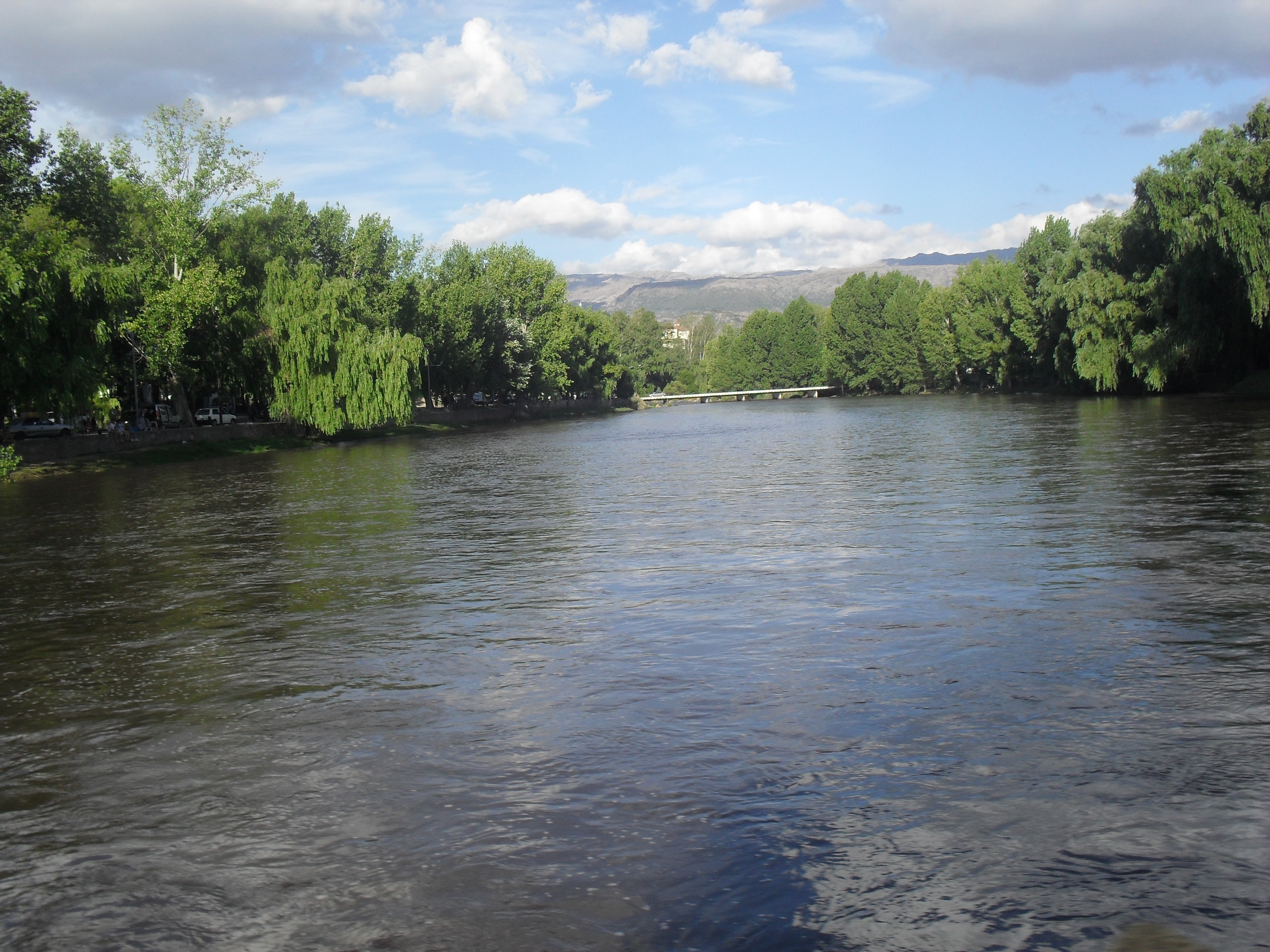 Mina Clavero river in one of her many growing